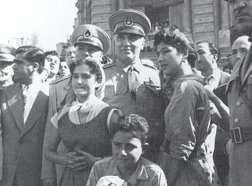 General Fazlollah Zahedi, 19. August 1953